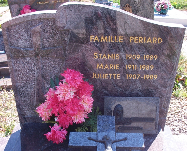 The grave of Stanis and his two sisters, Marie and Juliet the fifteenth victim, wounded during the killings and died a few days later in the hospital.